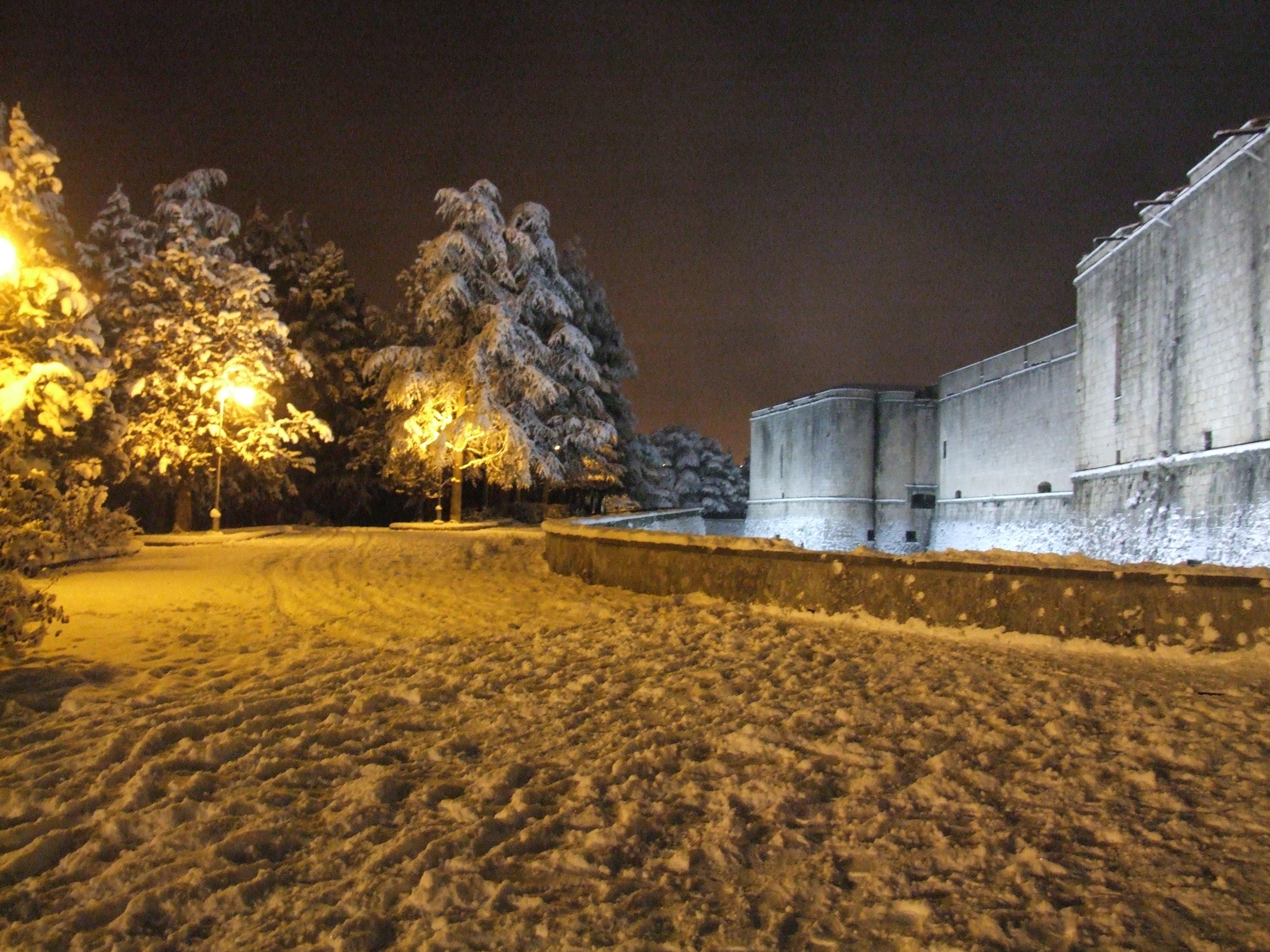 The Forte spagnolo of L'Aquila at night, under the snow.